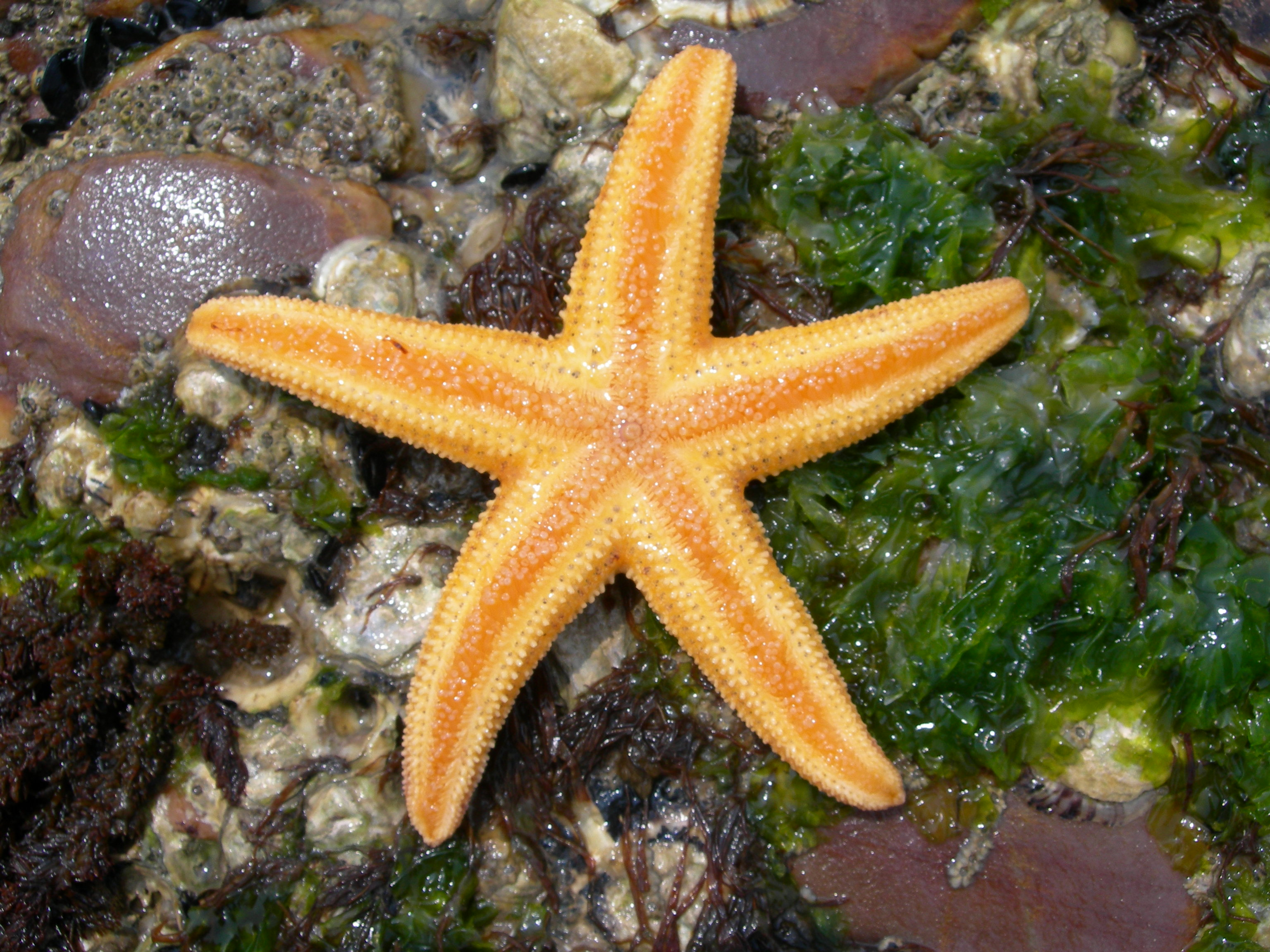 海星（反面）. Northern Pacific seastar, Asterias amurensis, ventral view. Dorsal view is Image:海星（正面）.JPG